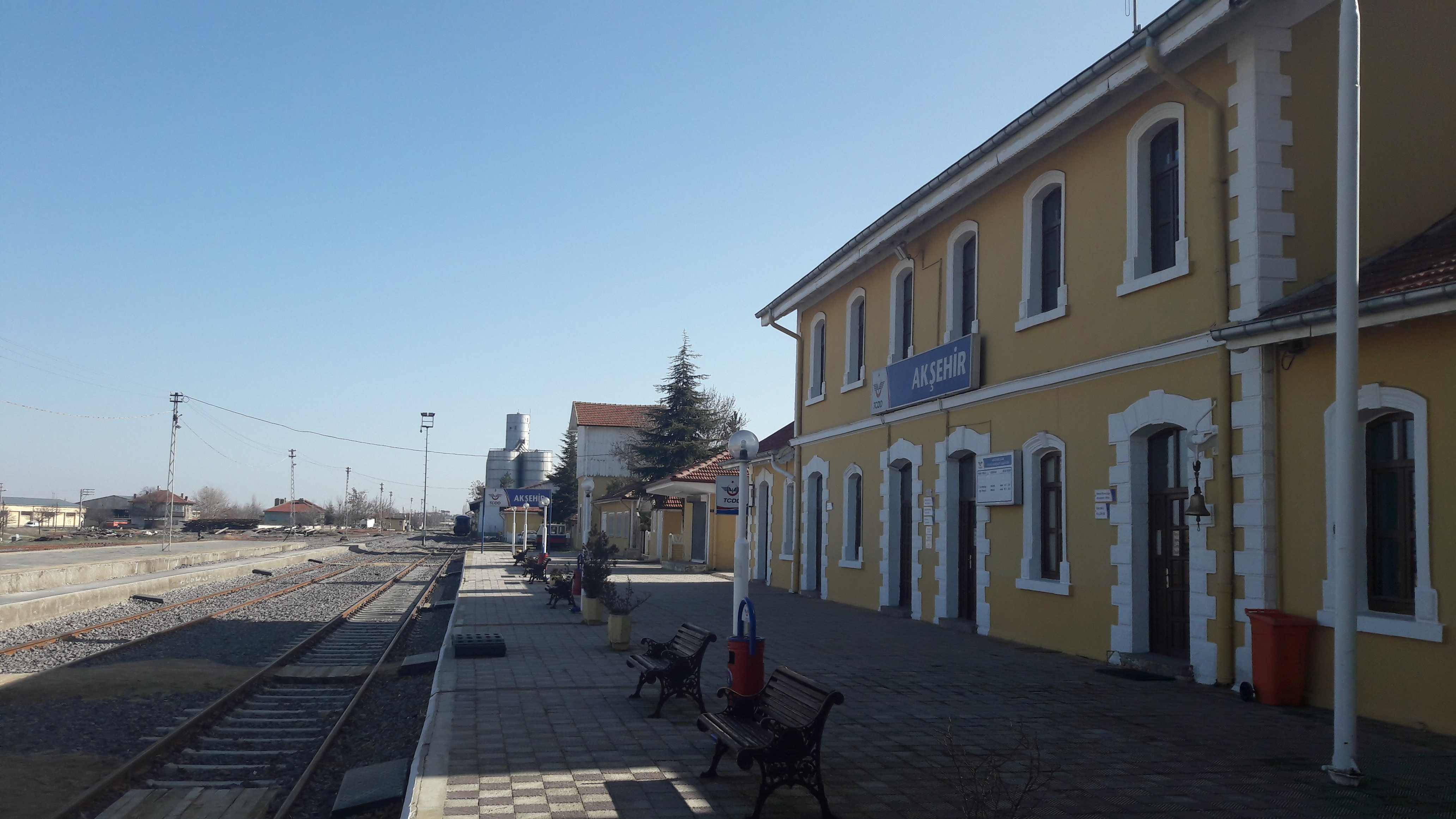 Aksehir railway station, looking south. (toward Konya)